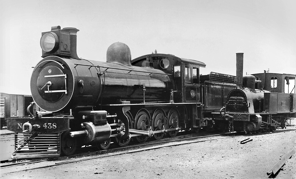 Ex Imperial Military Railways Class 8-L1 438 (4-8-0) next to a NZASM 14 Tonner (0-4-0T) Ex Central South African Railways Class 8-L1 438 (4-8-0) South African Railways Class 8A 1129 (4-8-0) Builder's Number: Sharp, Stewart 4865